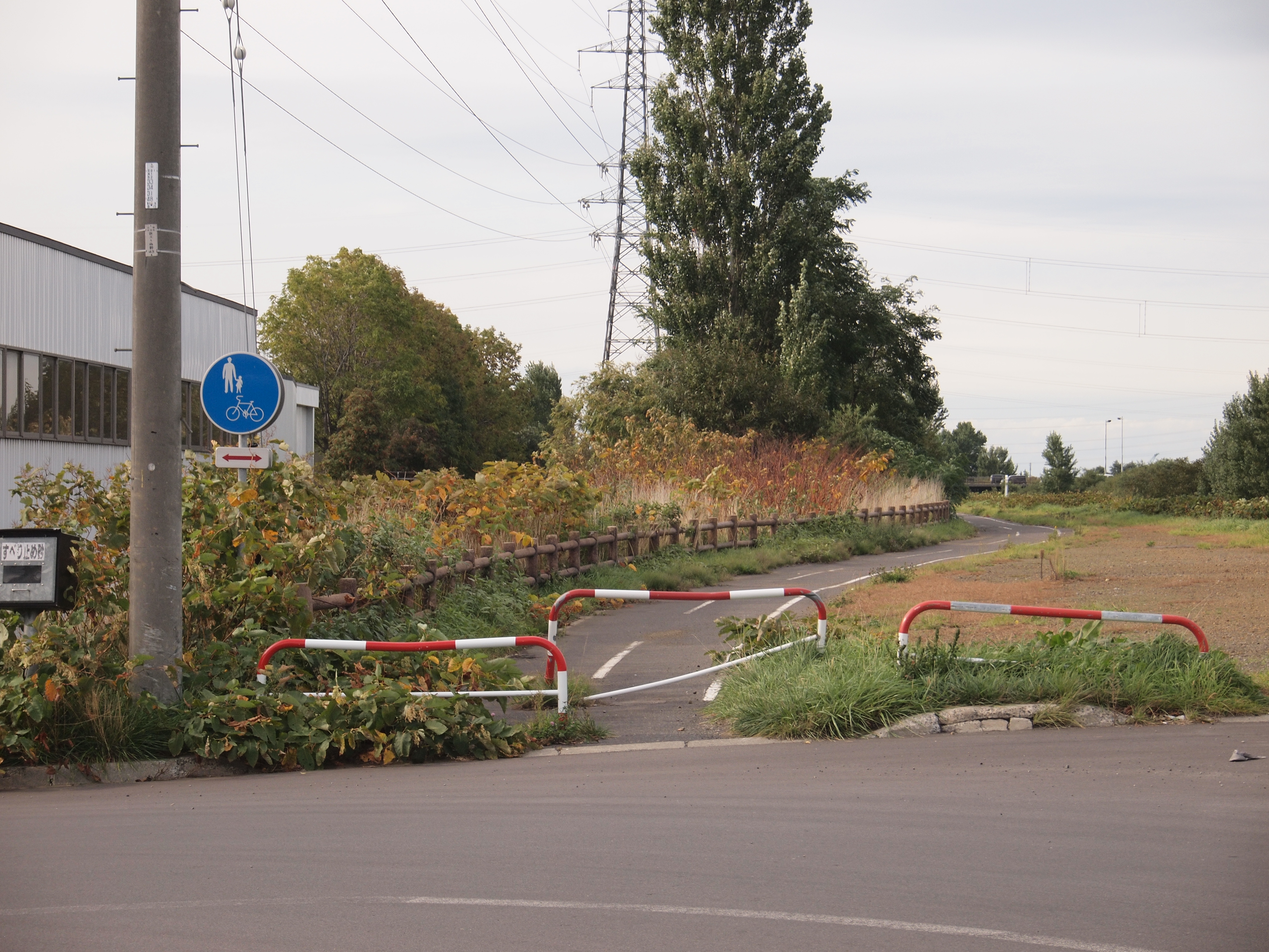 The Hokkaido Prefectual Road Route 1053 Makomanai Barato Higashikariki Bycycle Road in Sapporo City